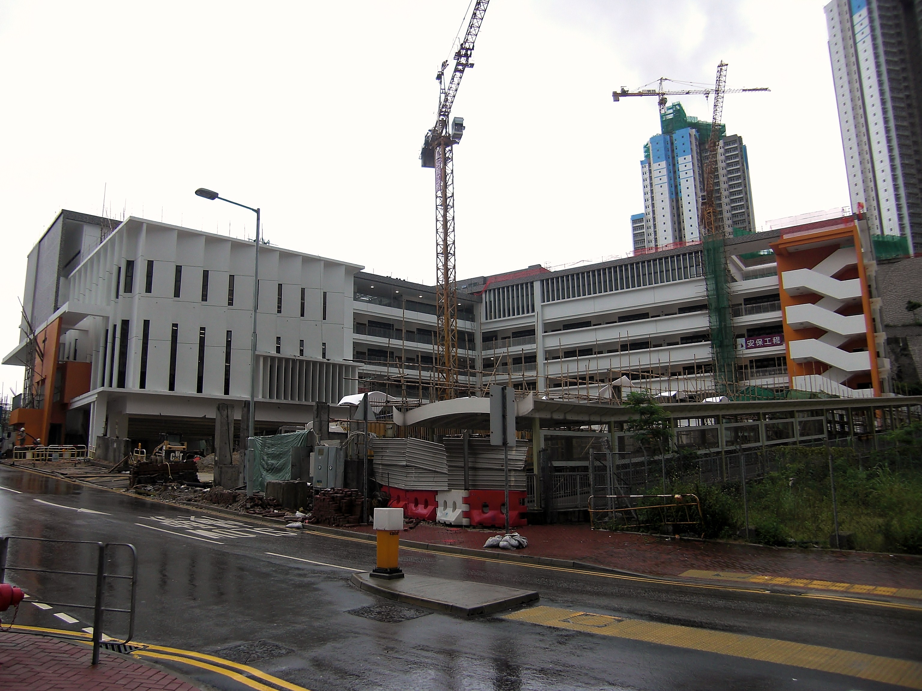 Jordan Valley St Joseph's Catholic Primary School